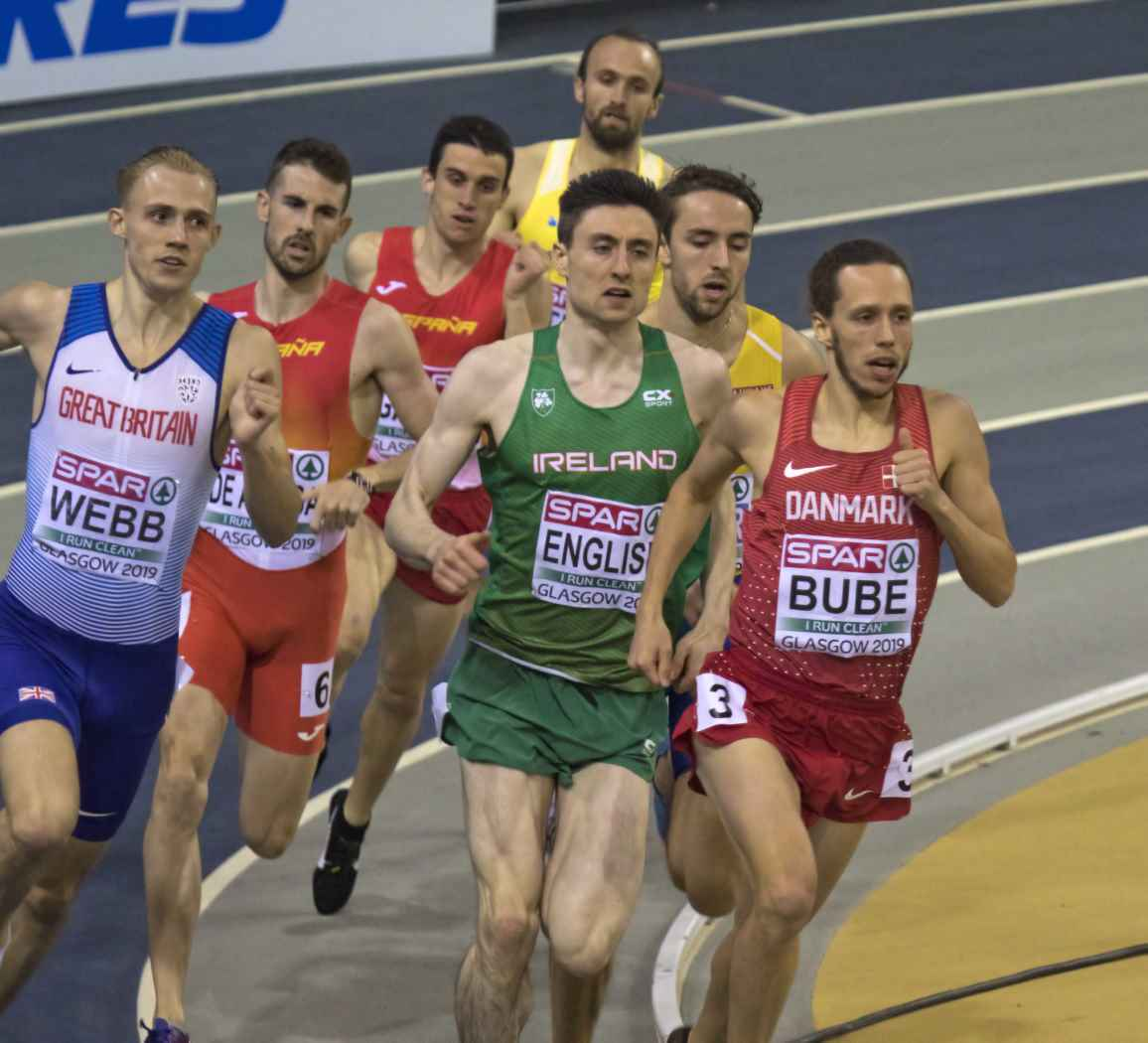 EKI30364 finale 800m man english bube webb